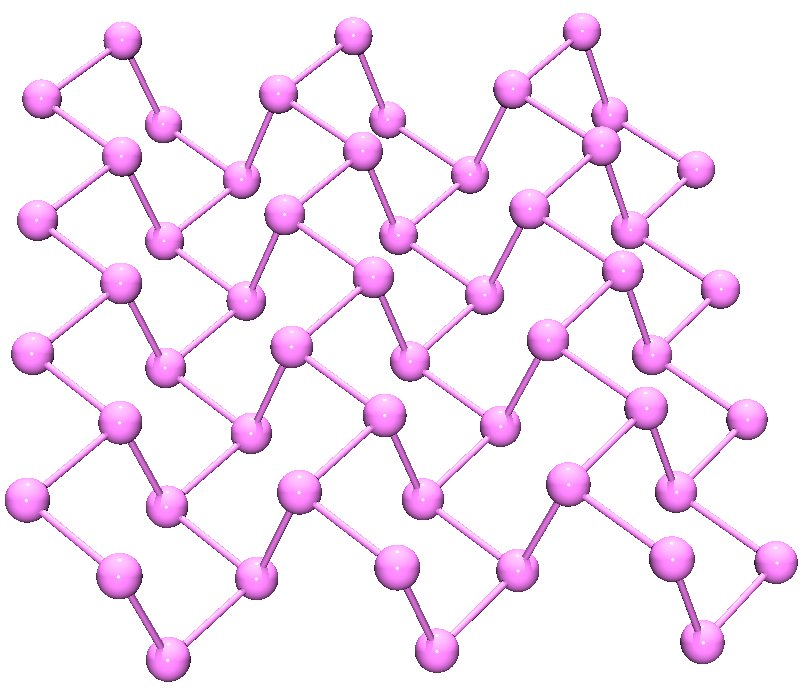 I drew it using literature data.